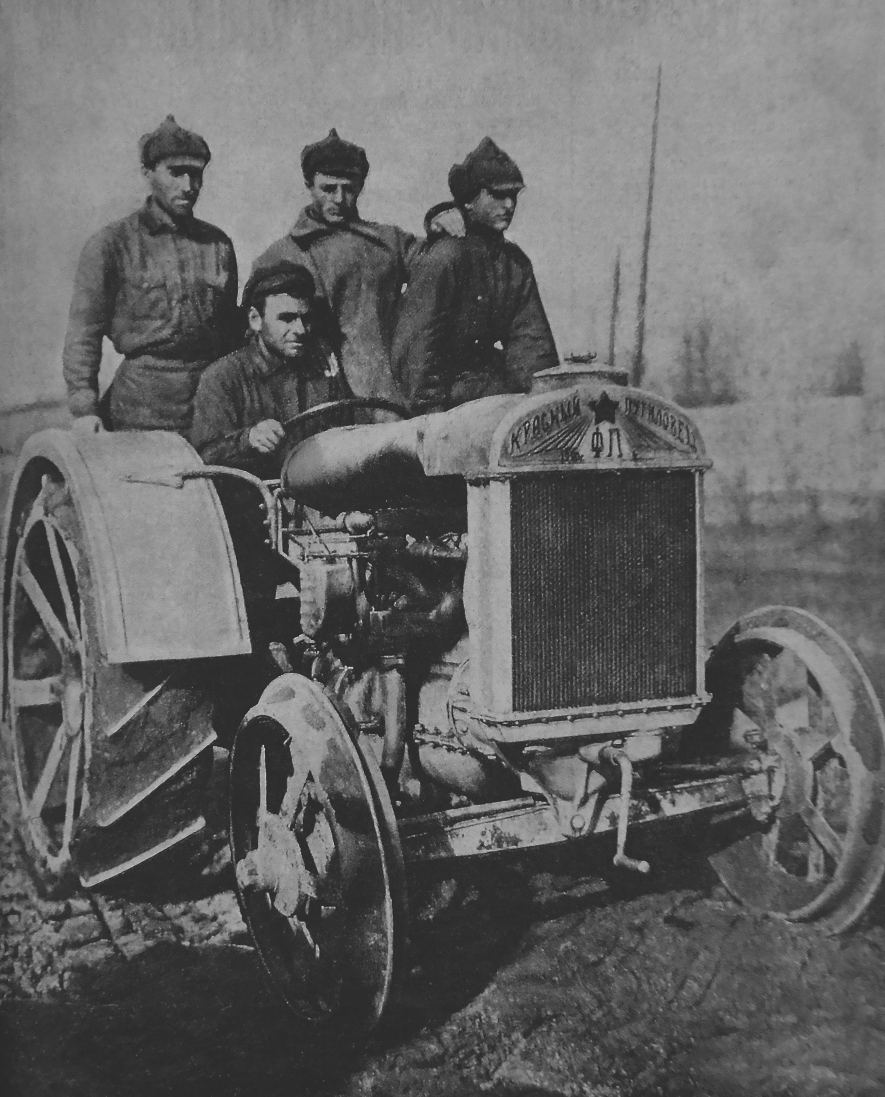 The Soviet industry produced the copy of Fordson F under the brand Fordson-Putilovets (Krasny Putilovets/Kirov) from 1924 till 1932. Red Army soldiers on the tractor driver’s training.